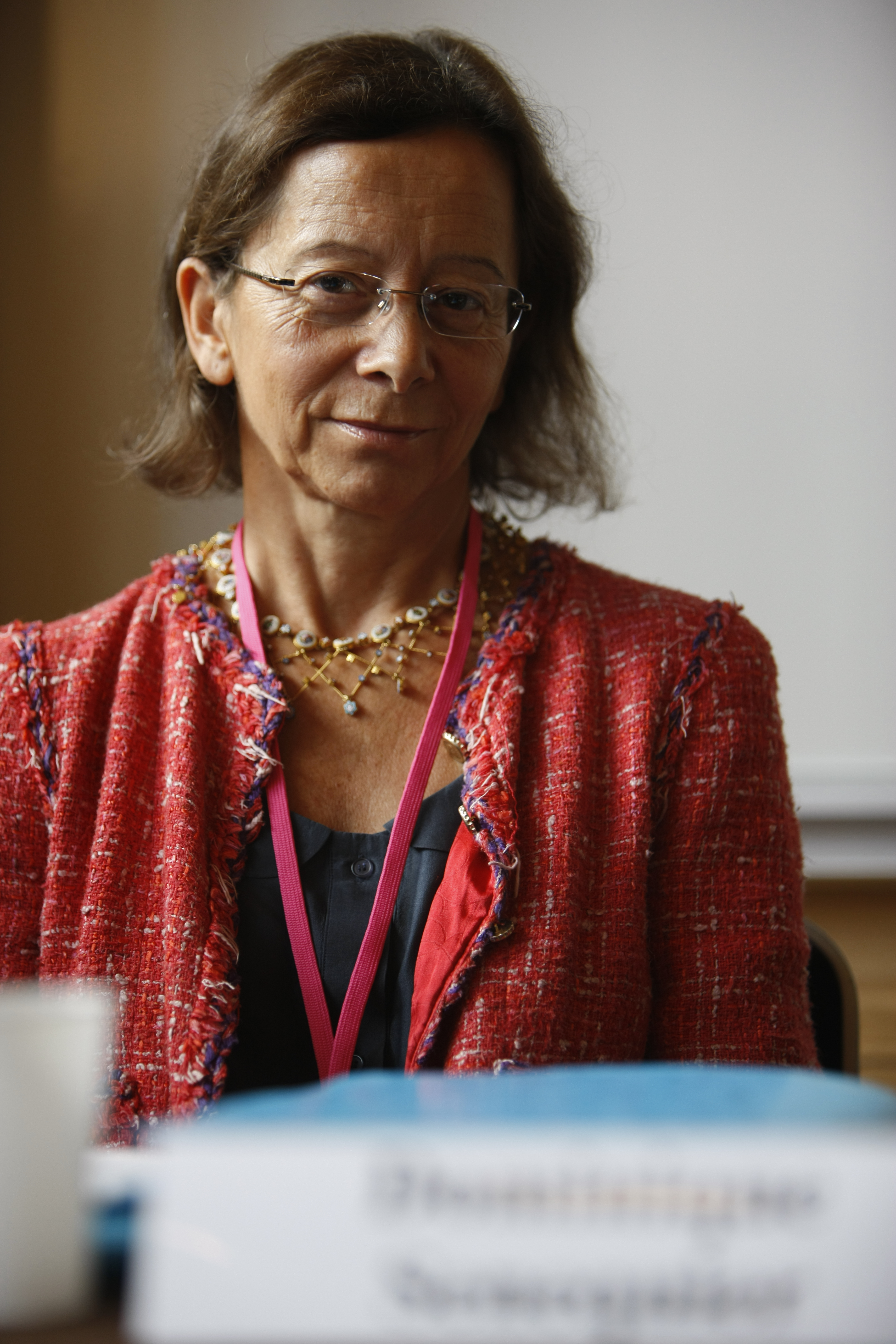 Dominique Sénéquier